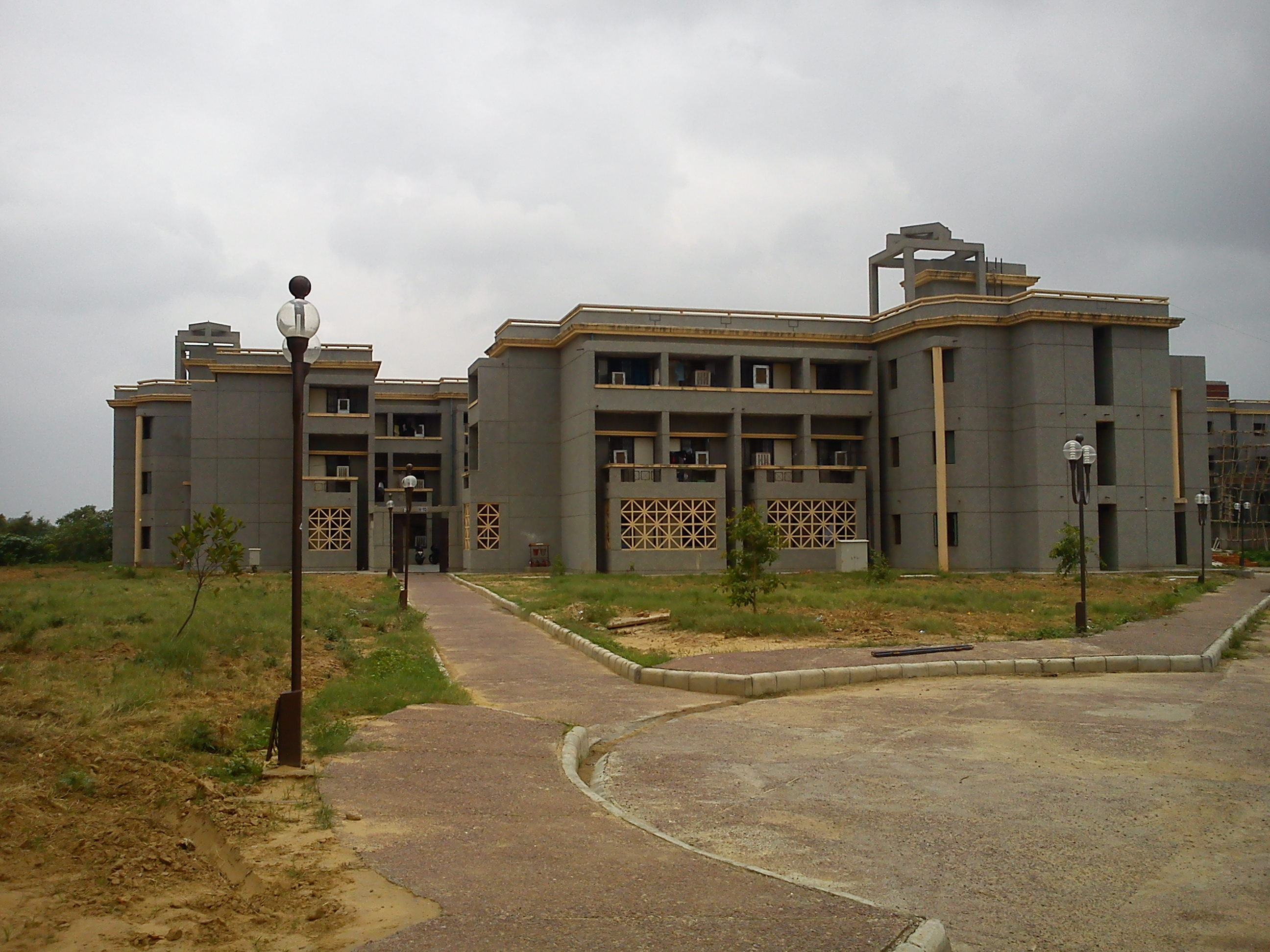 Photograph of Hostel 15 of IIM Lucknow, taken on 25th June 2011 using a 5 megapixel Mobile camera.